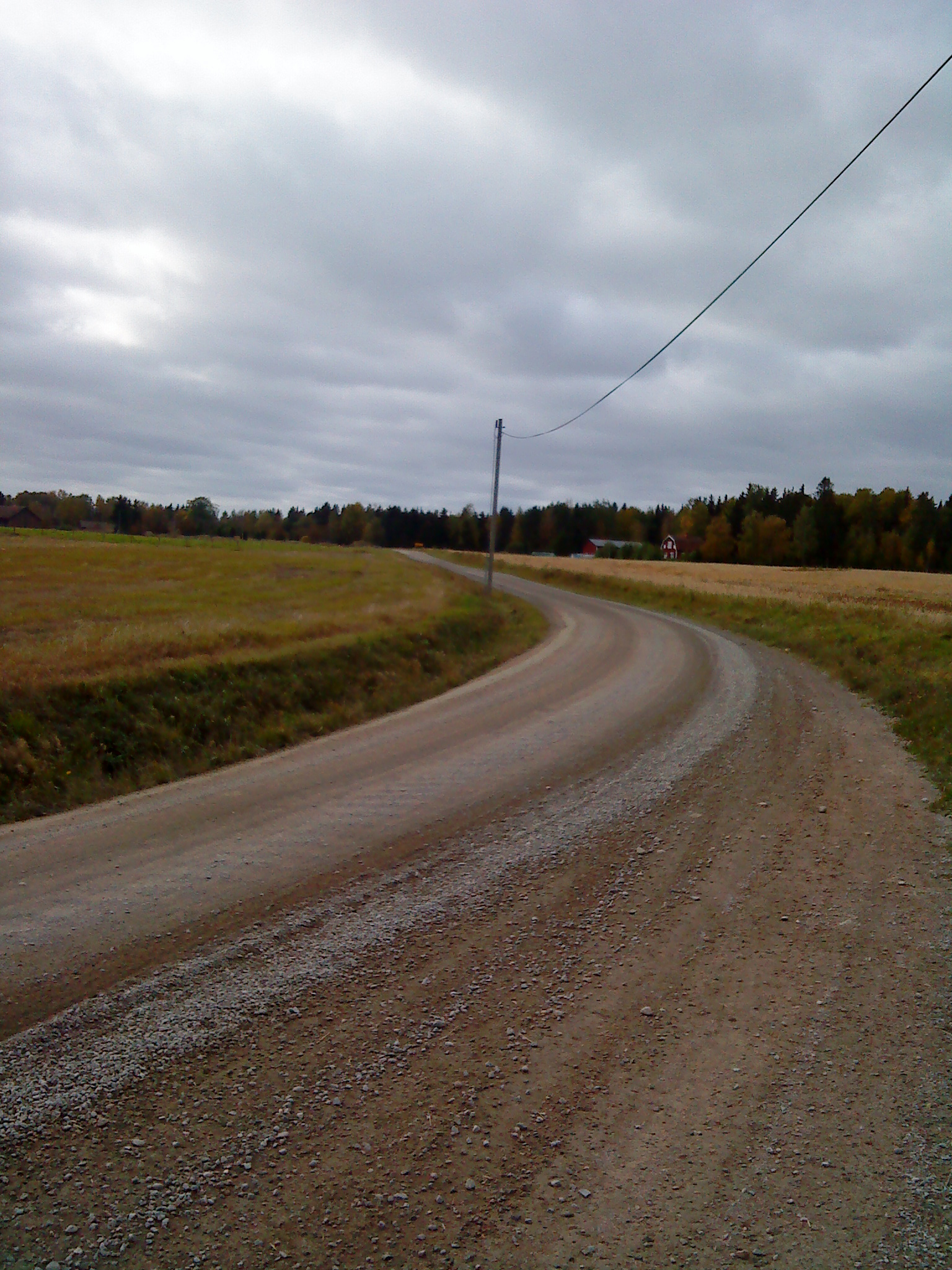 County road C-819 at Ryssjö (Kälsta), parish of Österunda, Uppland, Sweden